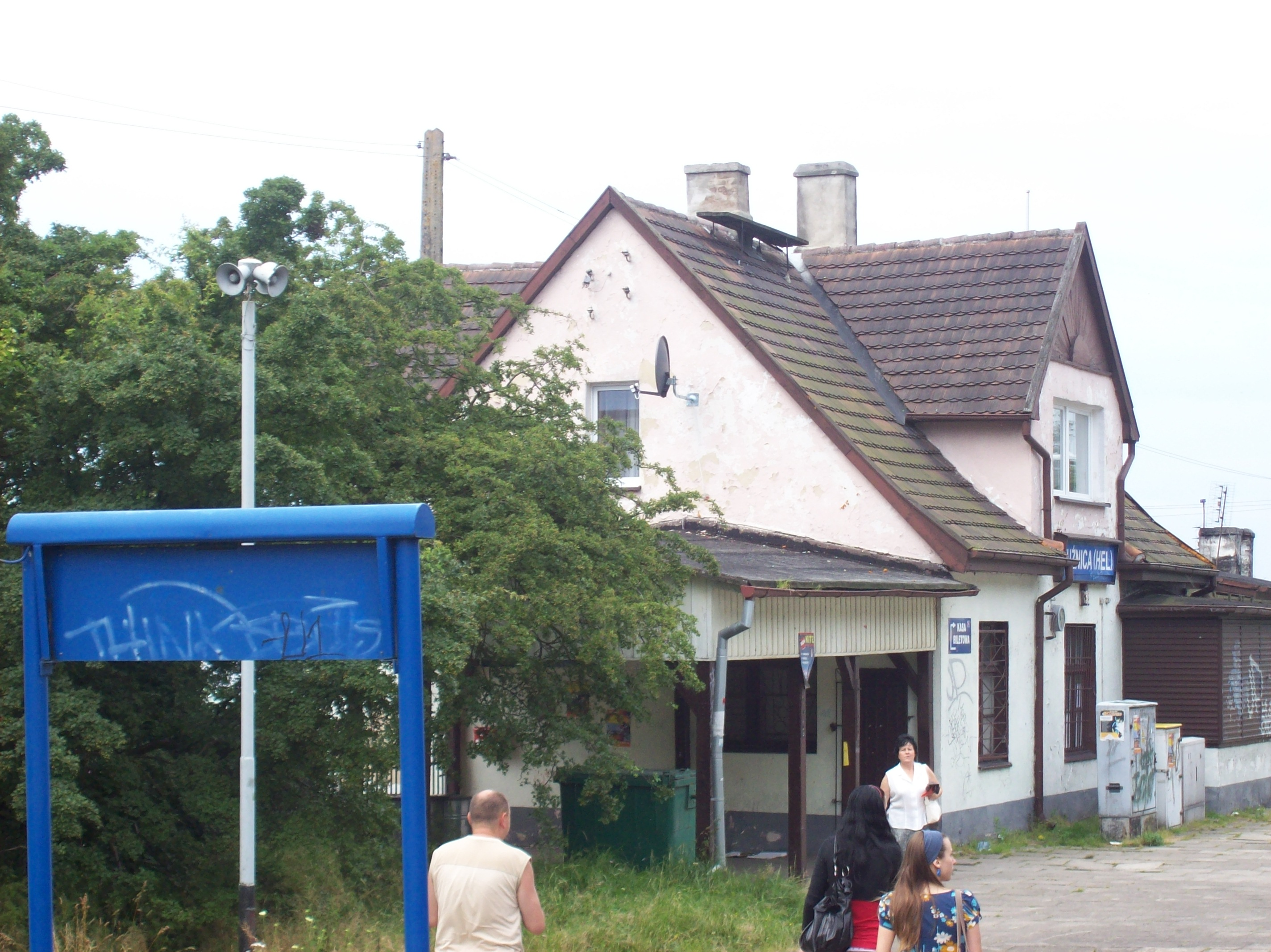 Kuźnica (Hel) - train station